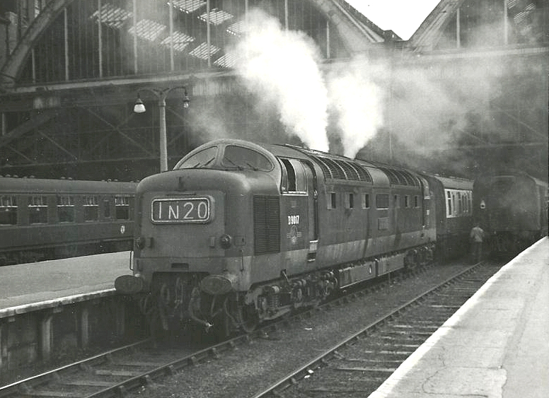 English Electric Type 5 (later Class 55) "Deltic" 3,300 hp Co-Co No.D9017 "The Durham Light Infantry" (later 55 017) in BR green livery with light green stripe and yellow warning panel, blasts off from KIngs Cross in typical Saturn V style at Kings Cross with a Leeds express, 07/66. Scanned photograph taken with a Kowa SET camera.